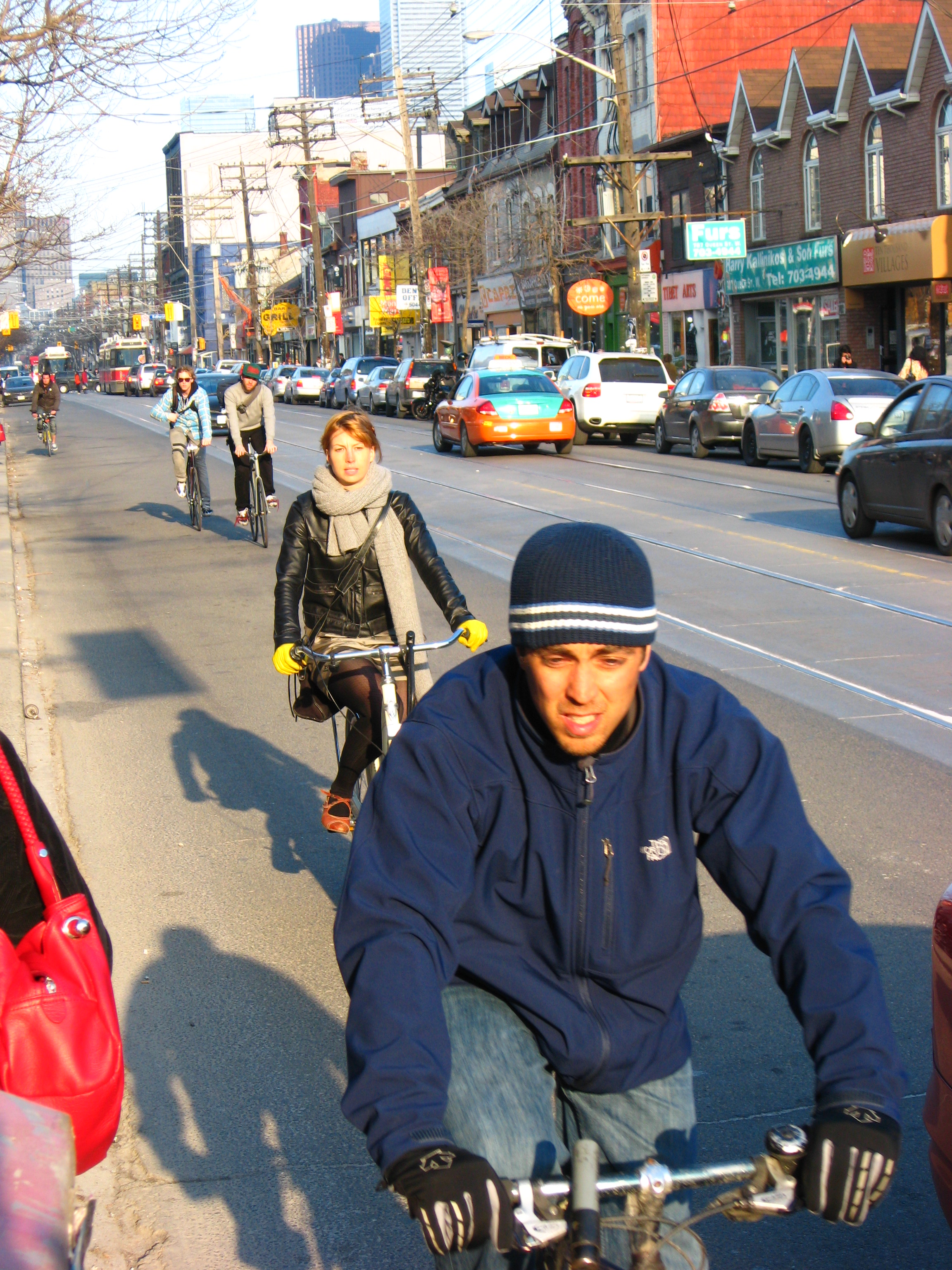 A steady stream of bikes heads home. 5:30pm, Queen St. West, Toronto.